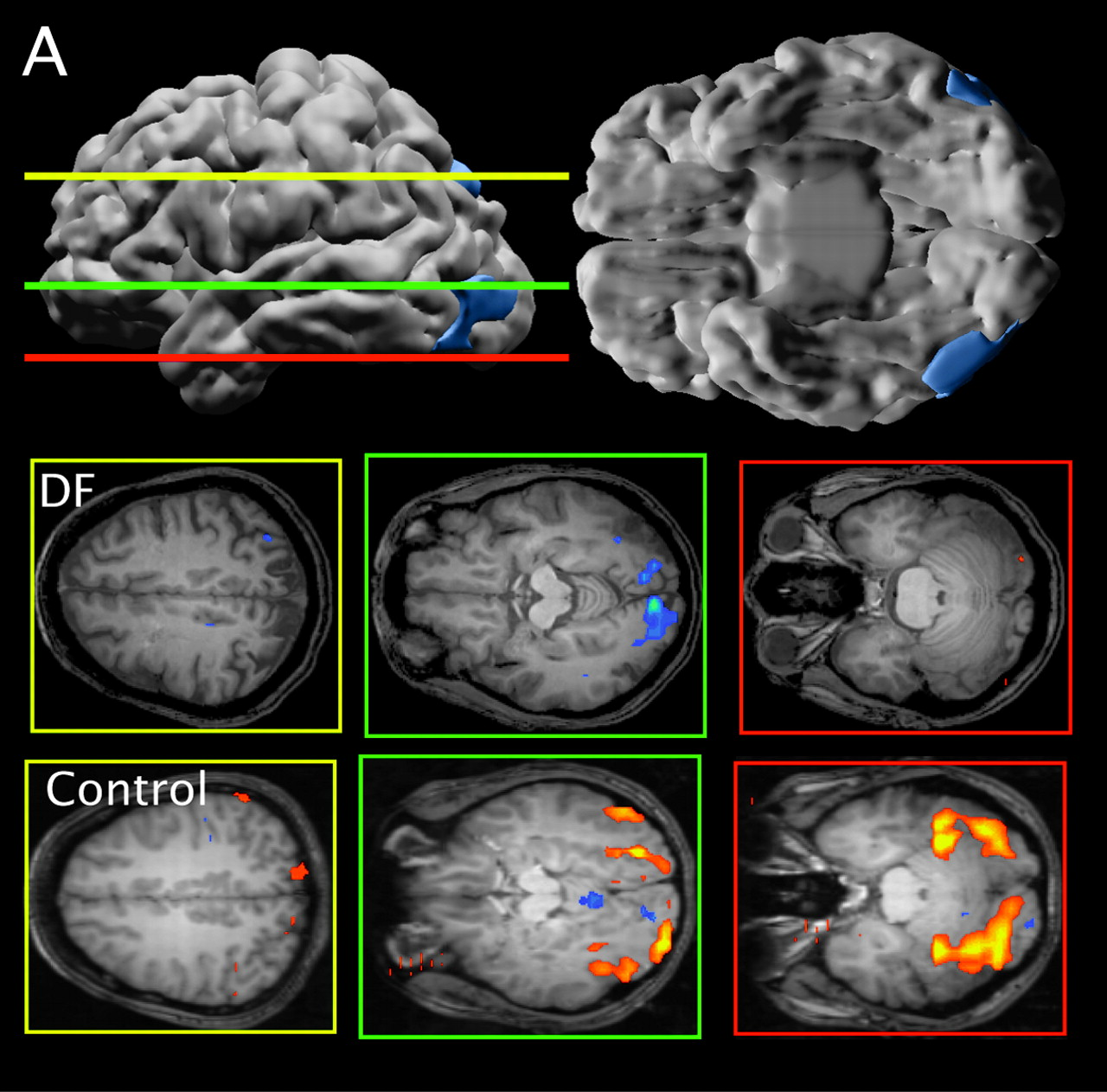 DF Lesion (from "Ventral occipital lesions impair object recognition but not object‐directed grasping: an fMRI study")